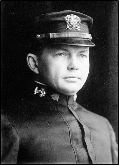 Commander Ridley Mclean, USN c.1918